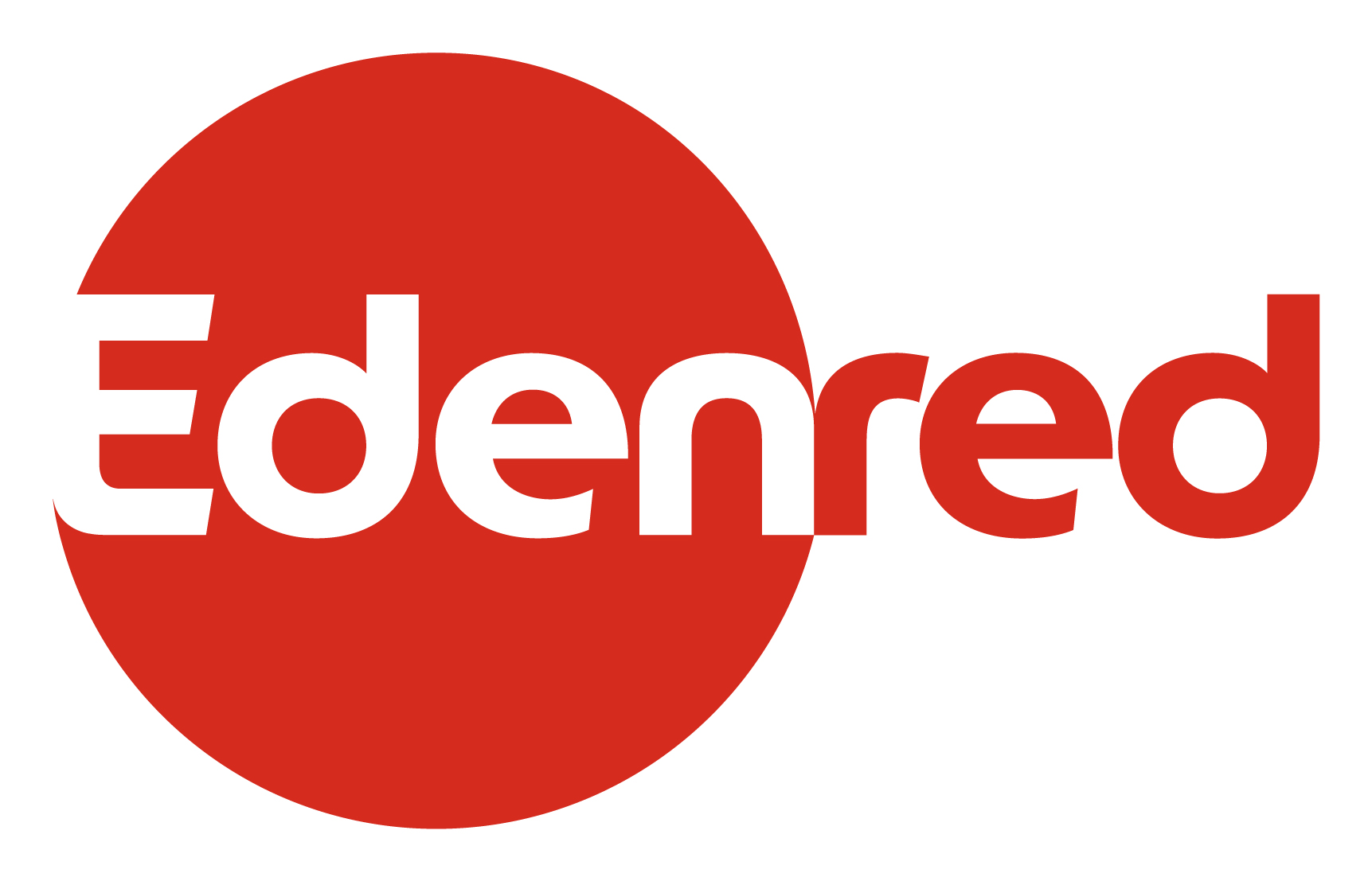 Edenred 2017 Logo